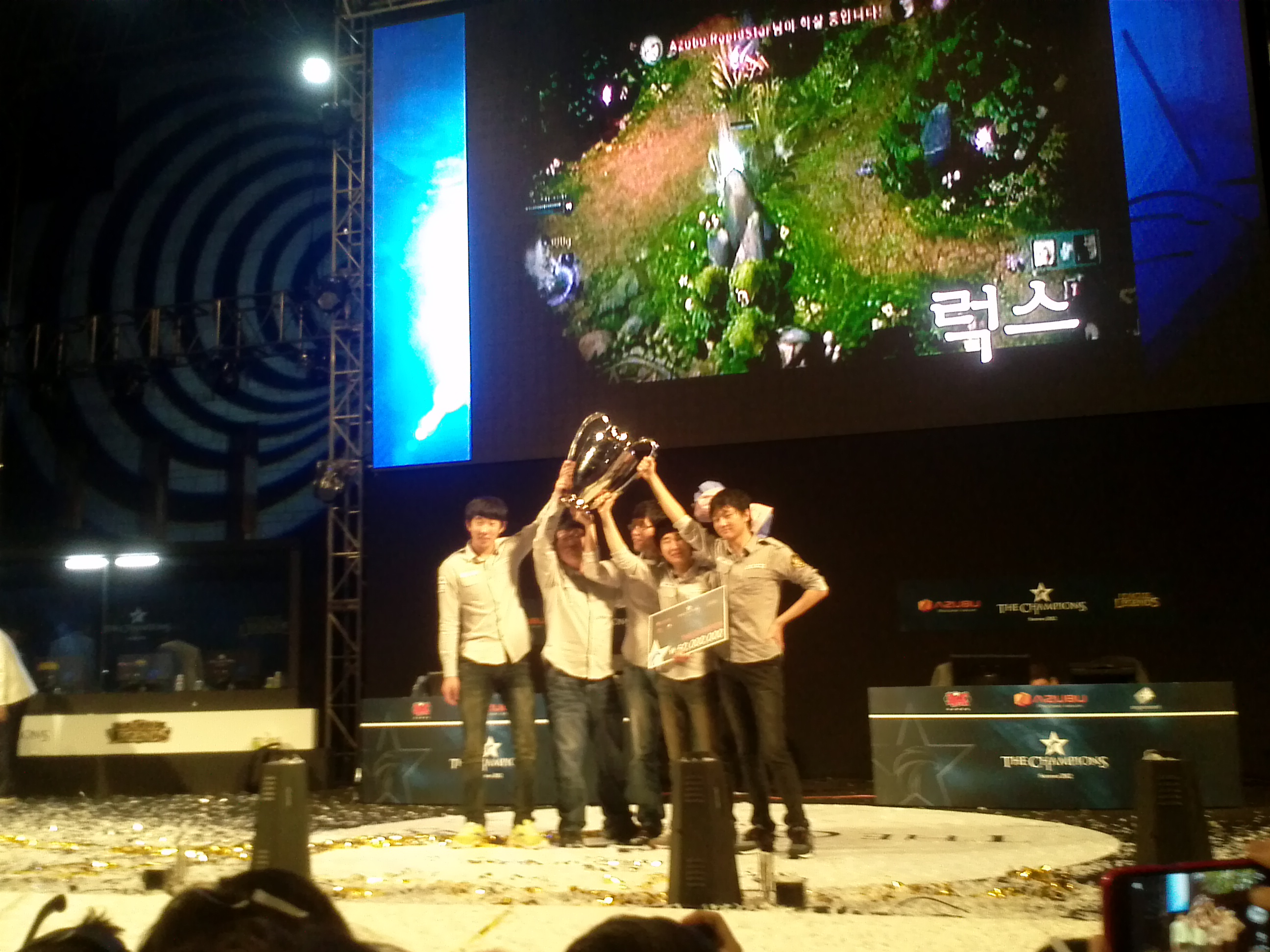 League of Legends teams of Azubu Frost at the OGN Champions finals 2012